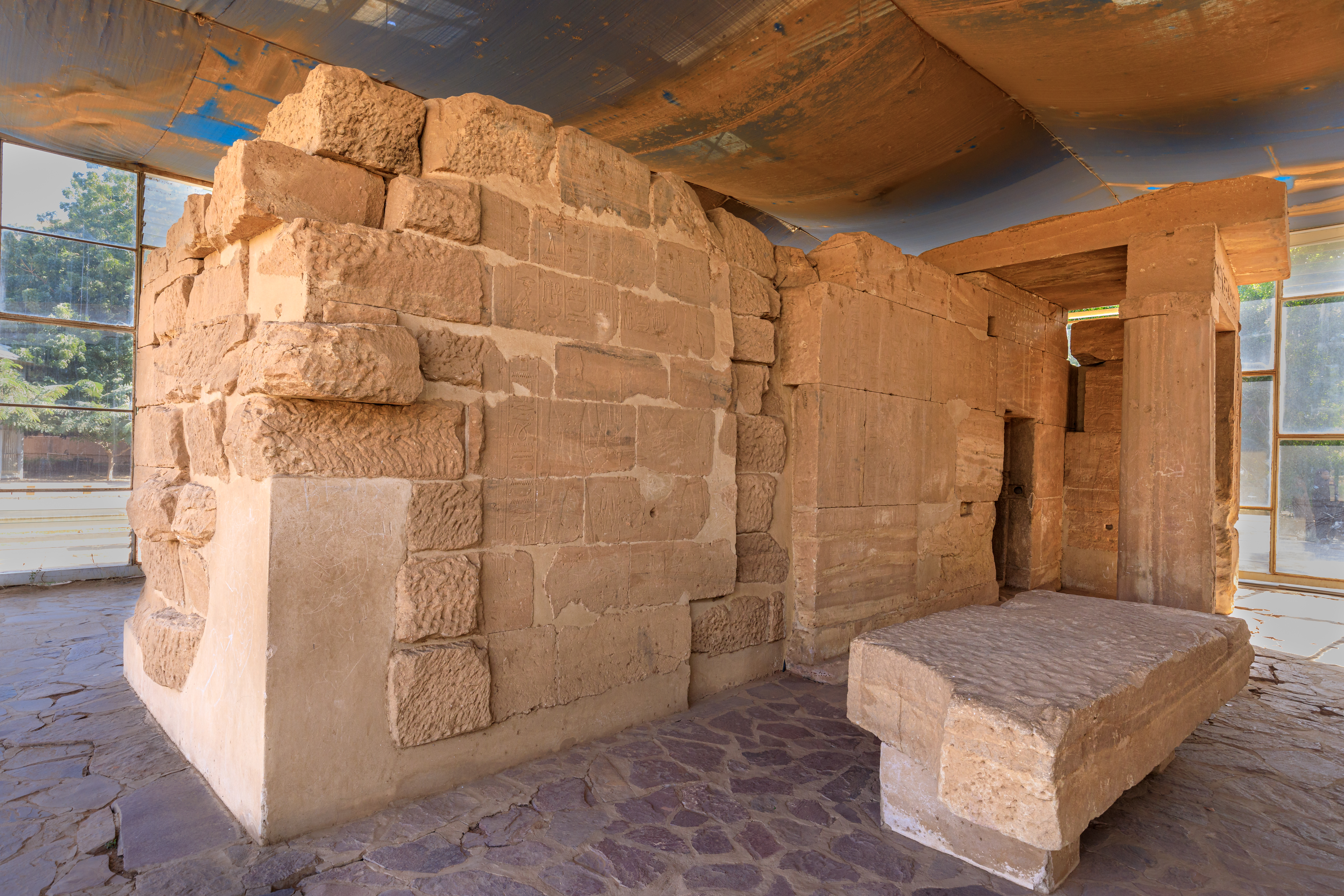 Semna was built 35 km south of the 2nd Nile-cataract as a fortified area by Sesostris III (12. Dyn., c. 1860 BC). Thutmose III (18. Dyn, 1450 BC) added a temple honouring the nubian god Dedwen, that was disassemble in 1965 und re-erected in Sudan National Museum in Khartoum. On the opposite banks of the Nile there is the fortification of Kumma - both submerged in the Nubian Lake, part of the Nasser Lake. George A. Reisner investigated them in the late 1920s.